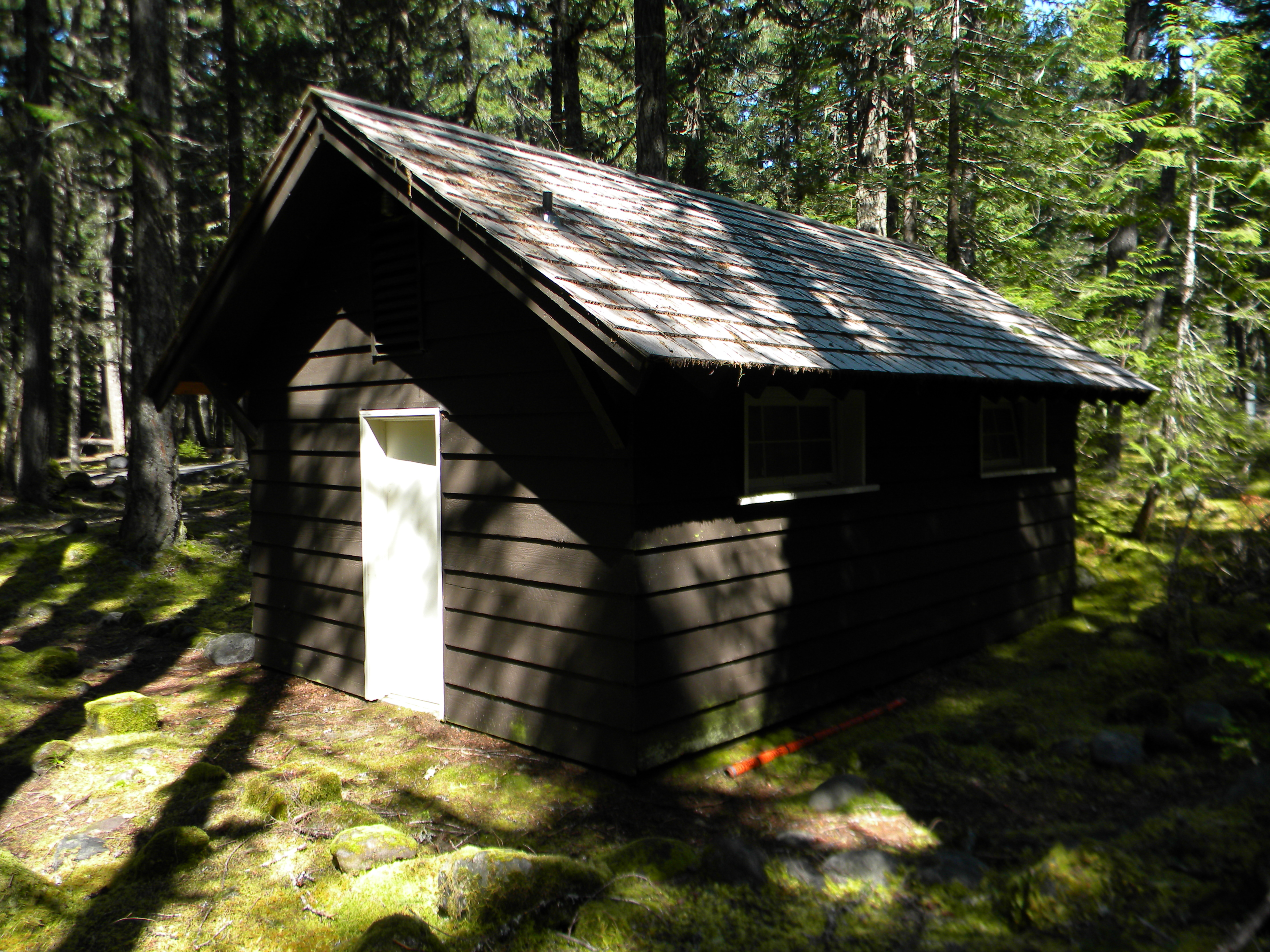 Longmire Campground Comfort Station No. L-302 Located in Employee Housing.